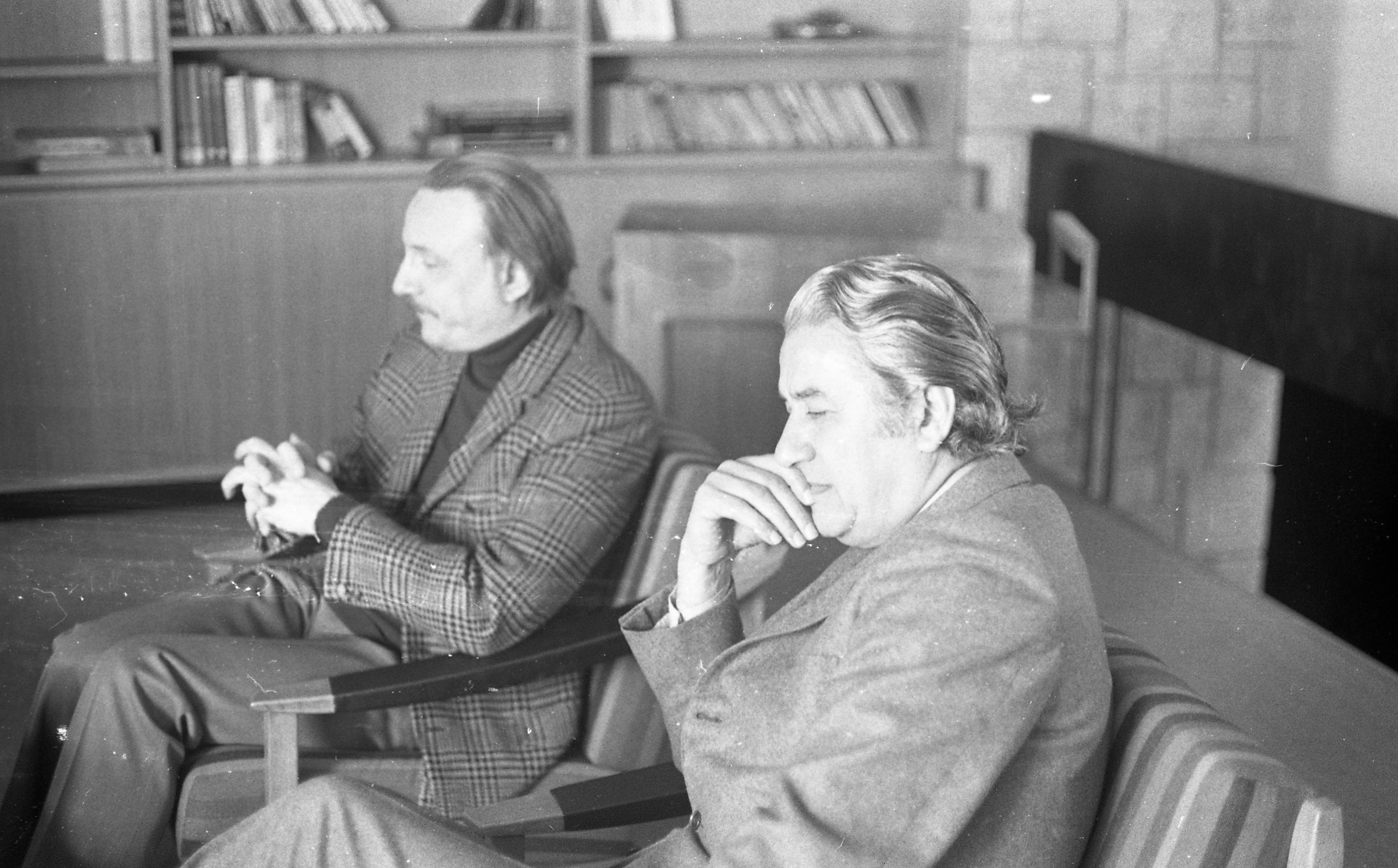 Swedish Radio Symphony Orchestra visit to Israel. The conductor Maestro Sergiu Celibidache.